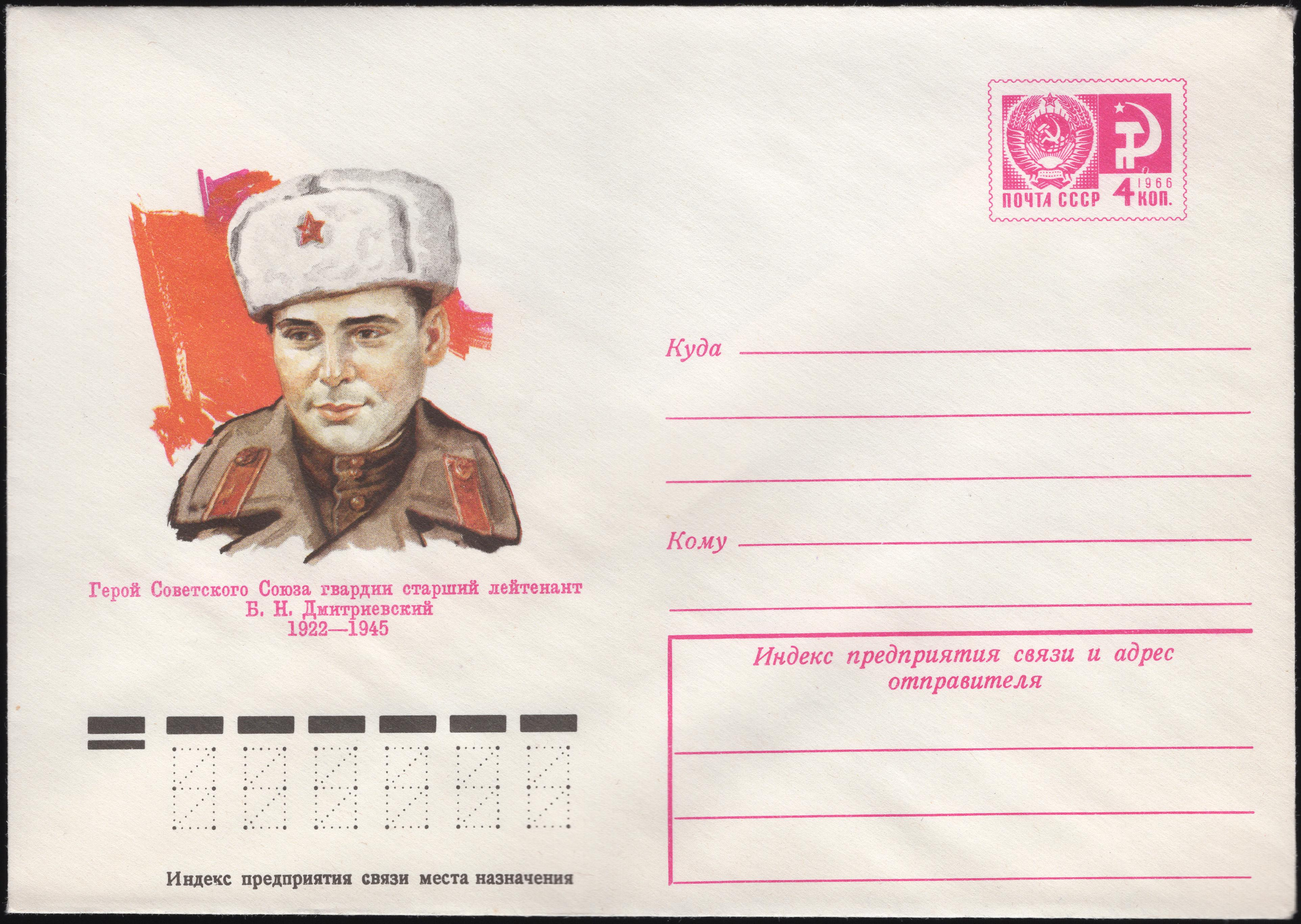 Hero of the Soviet Union Guards Senior lieutenant Boris Dmitrievsky. 1922-1945. Series: Heroes of the Soviet Union. Artist Peter Bendel.